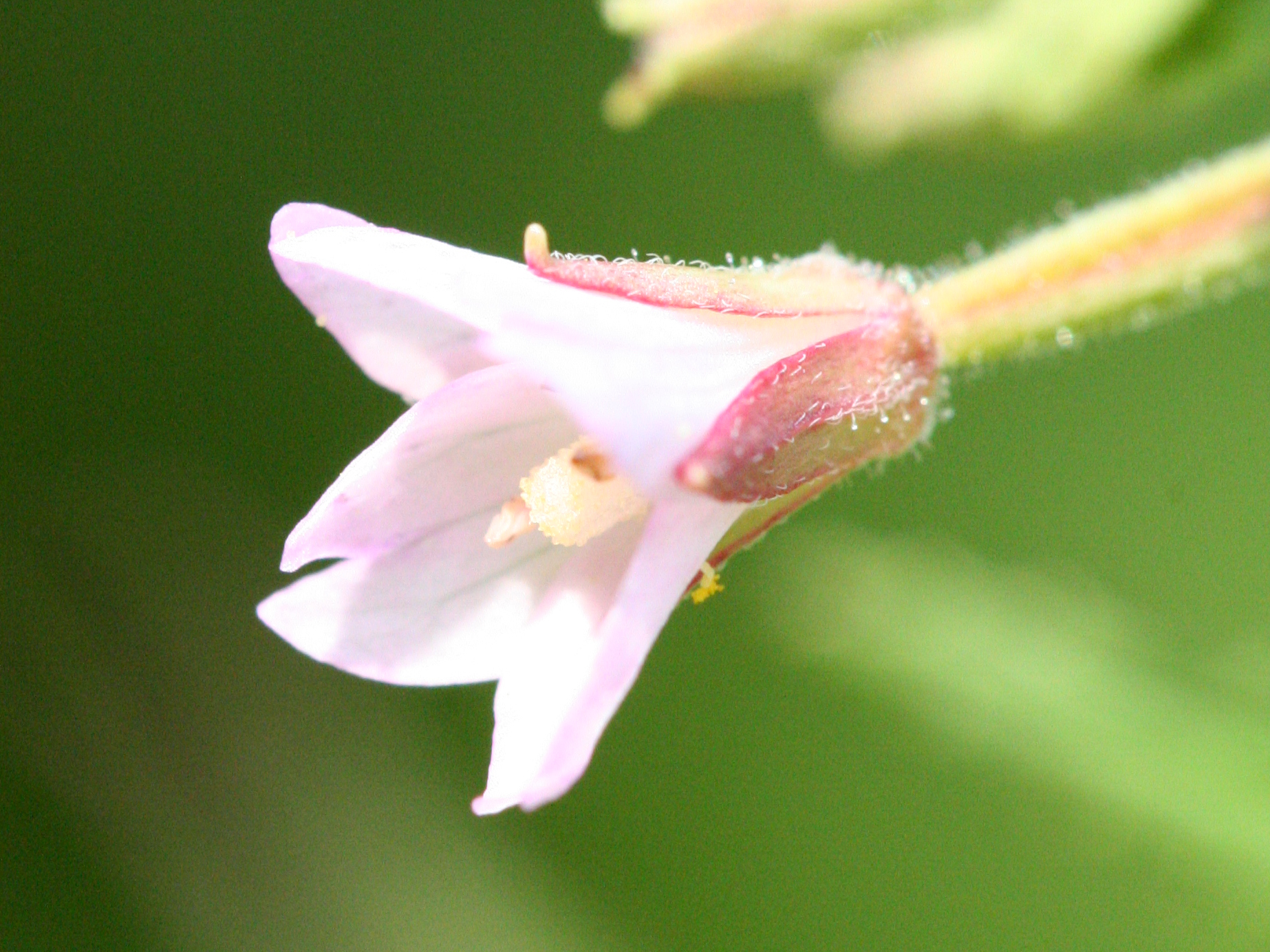 Epilobium ciliatum Raf. ssp. ciliatum - fringed willowherb